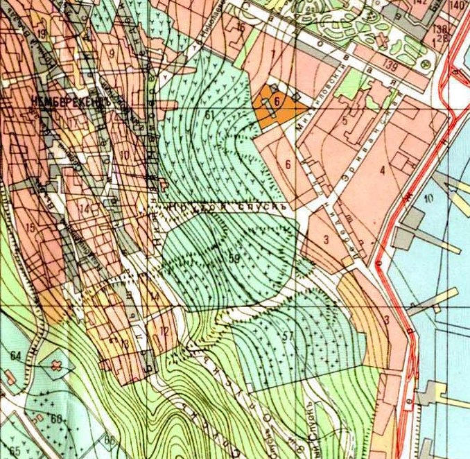 Chemberekend cemetery in 1898 plan